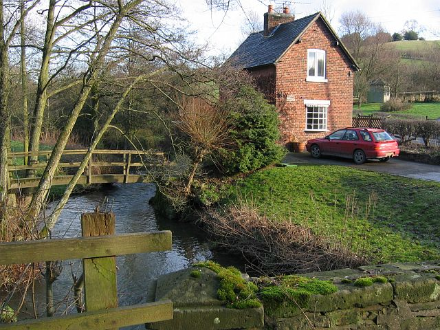 Bentley Brook and Woodeaves Cottage Looking across Bentley Brook from a small road bridge over the brook. The footbridge is part of the property of Woodeaves Cottage.